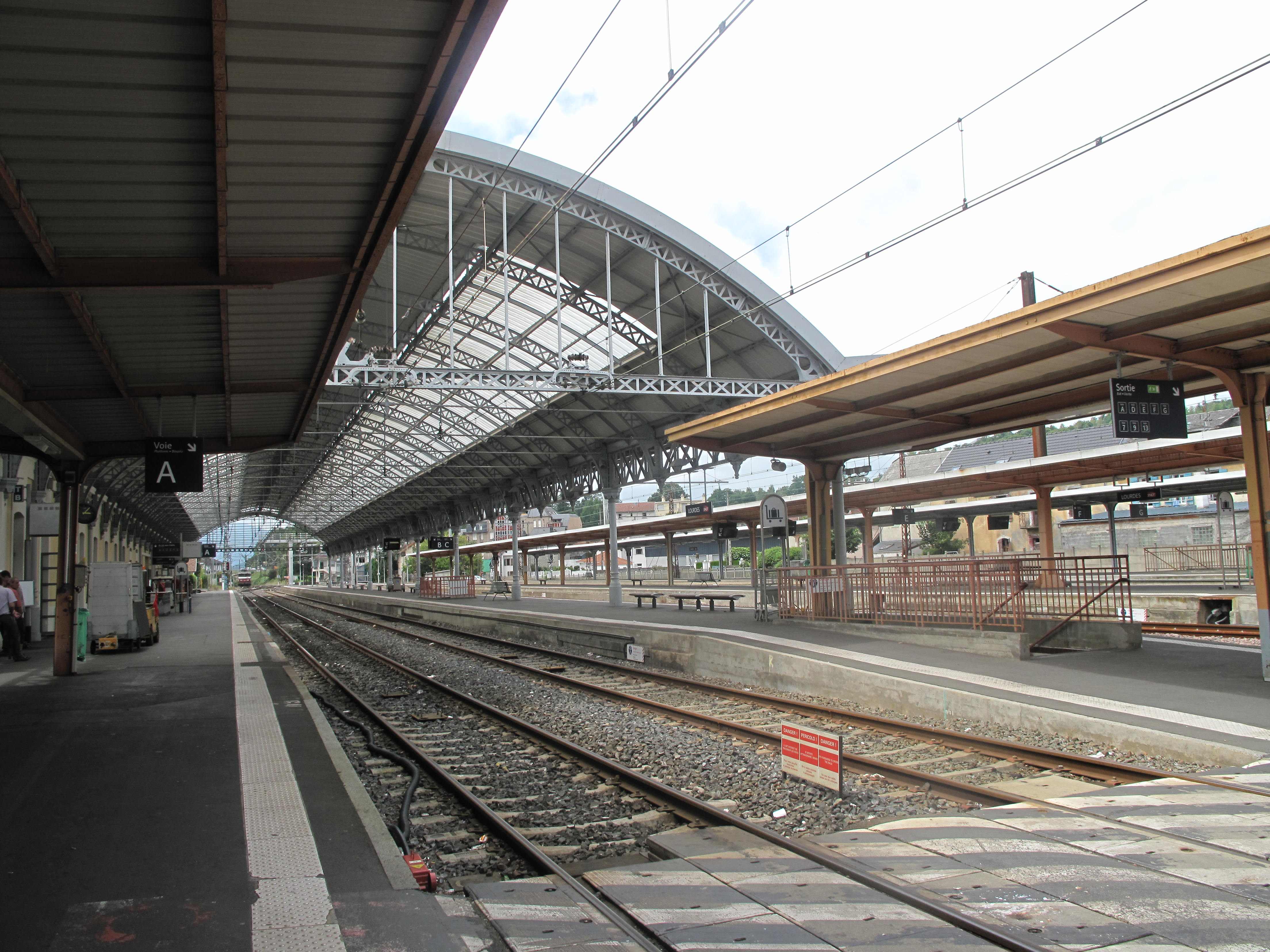 Lourdes train station, Hautes-Pyrénées, France.